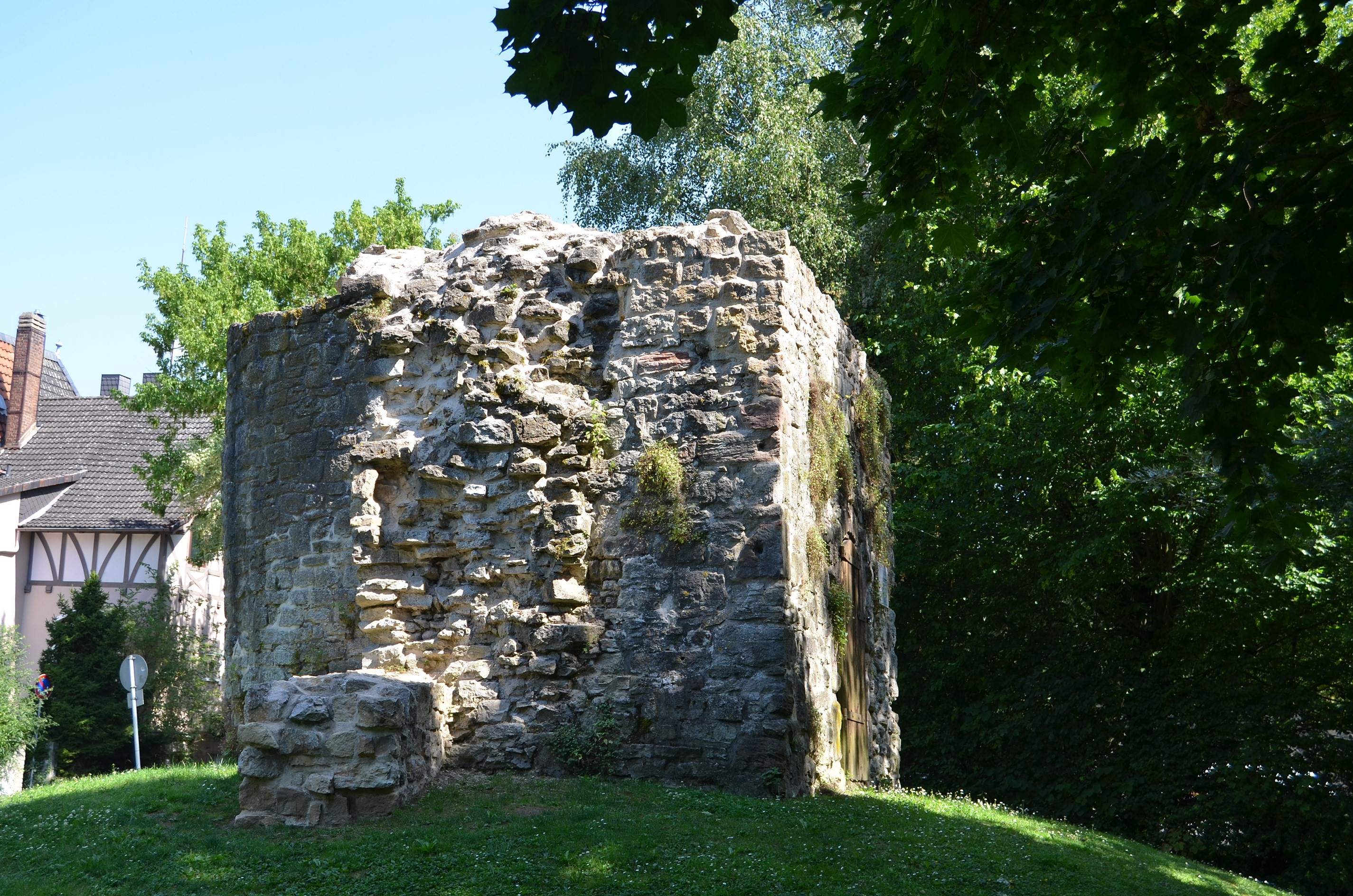 Einbeck (Lower Saxony, Germany) – city fortification – tower "Knochenturm" This is a photograph of an architectural monument.It is on the list of cultural monuments of Einbeck This photograph was taken with a Nikon D7000